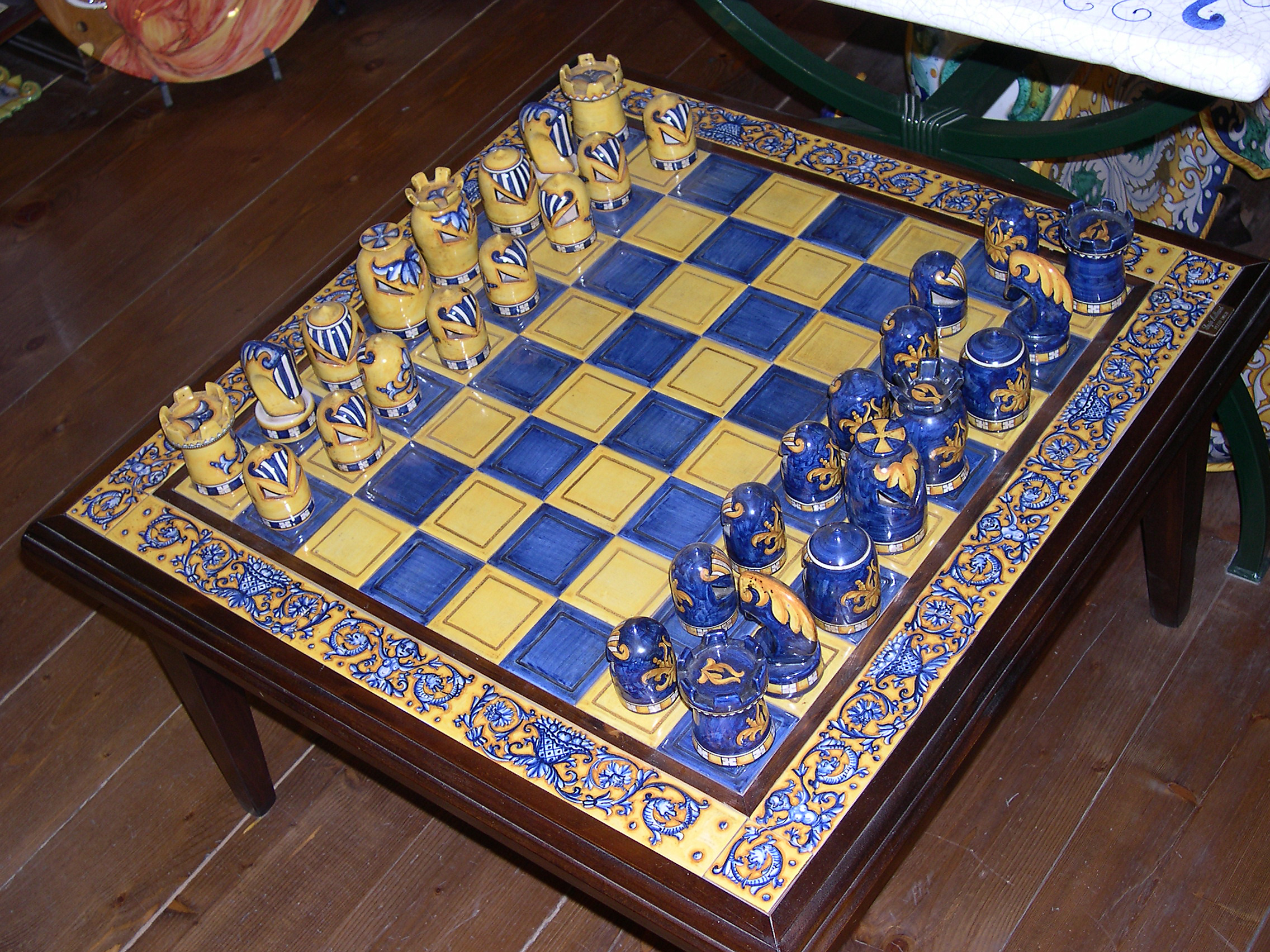 chessboard made of porcelain